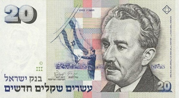 Obverse side of a 20 NIS bill, paper